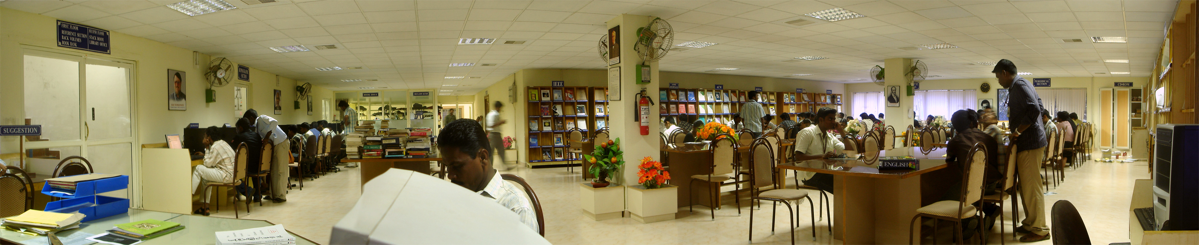 The central library of Sri Venkateswara College of Engineering.